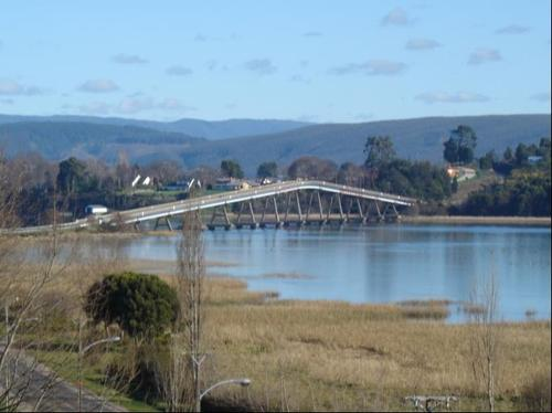 I took this photo with my own camera.